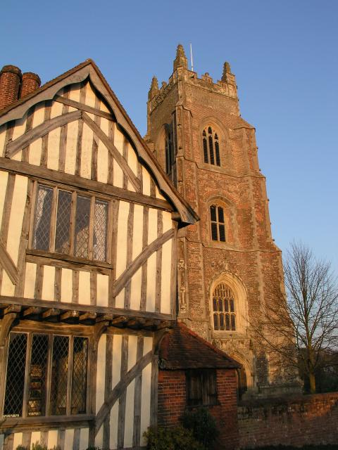 Stoke by Nayland Church. The finest tower in Suffolk many think.